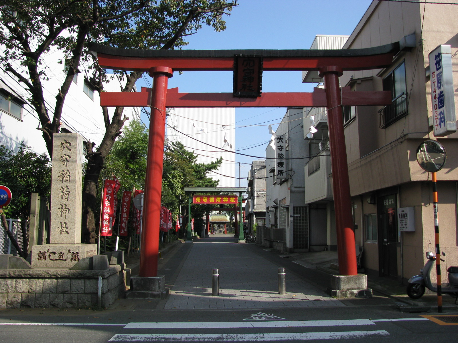 Anamori Inari Jinja (Anamori Inari Shrine) is located in Ota, Tokyo, Japan.